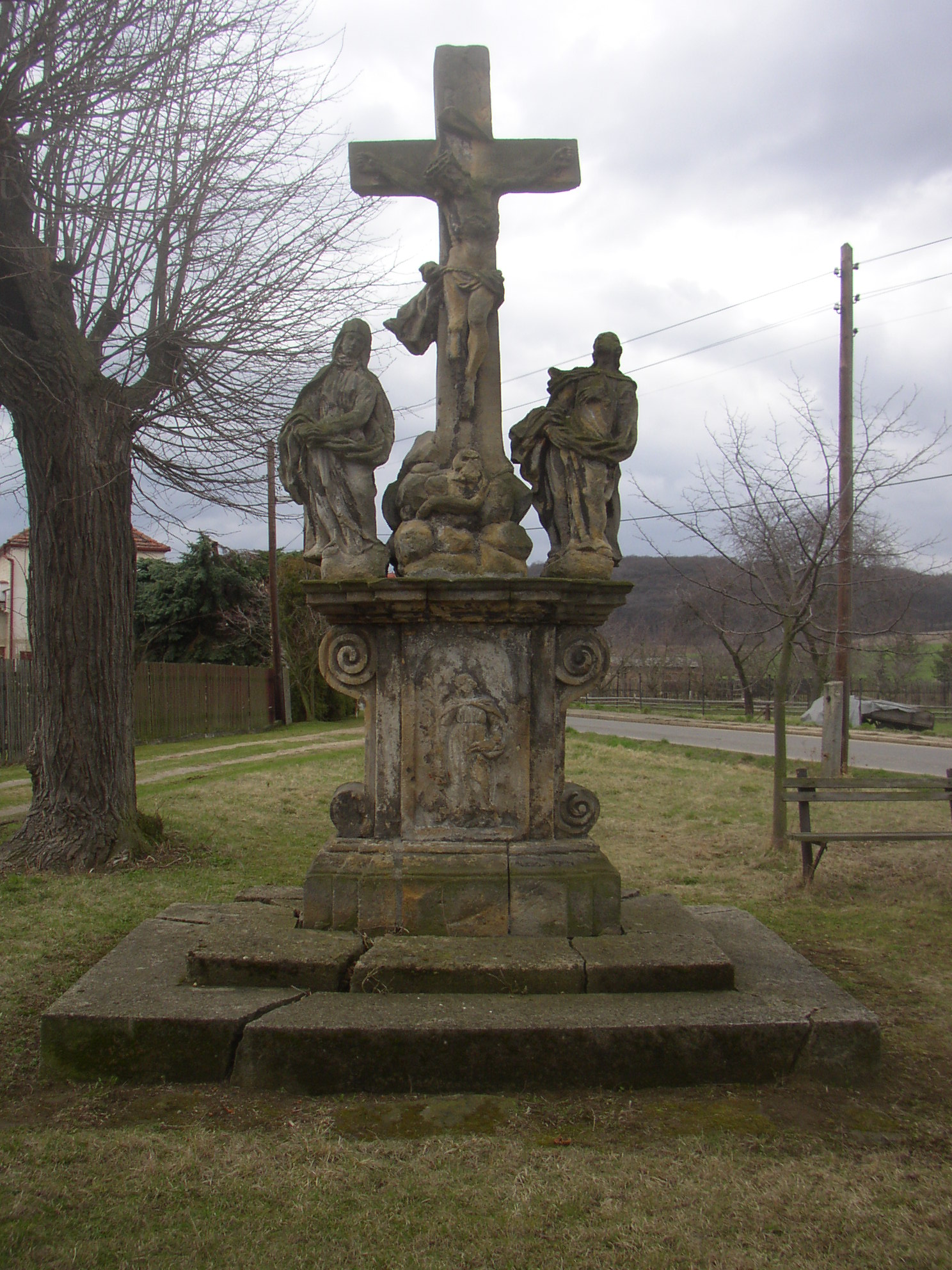 Calvary sculpture from 1722 in Březno, part of Velemín municipality, Litoměřice District, Czech Republic.